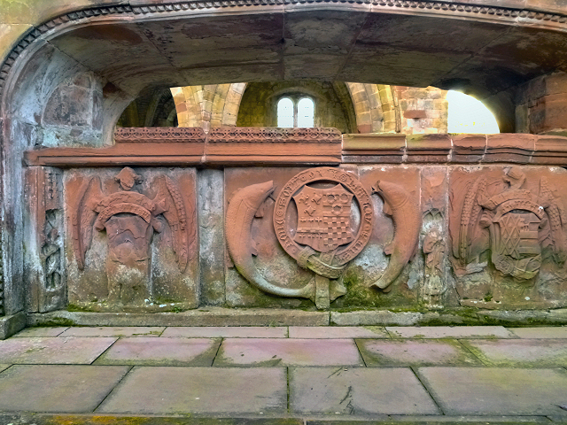 Lanercost Priory, Cumbria: tomb of Thomas Dacre, 2nd Baron Dacre. The central escutcheon quarterly of four shows: 1: three cushions (Greystoke ancient); 2: Barry, three chaplets (Greystoke modern); 3: Gules, a fess chequy argent and azure between six cross crosslets fitchee or (Baron Ferrers of Wem, formerly Baron Boteler of Wem; 4: Chequy (?).